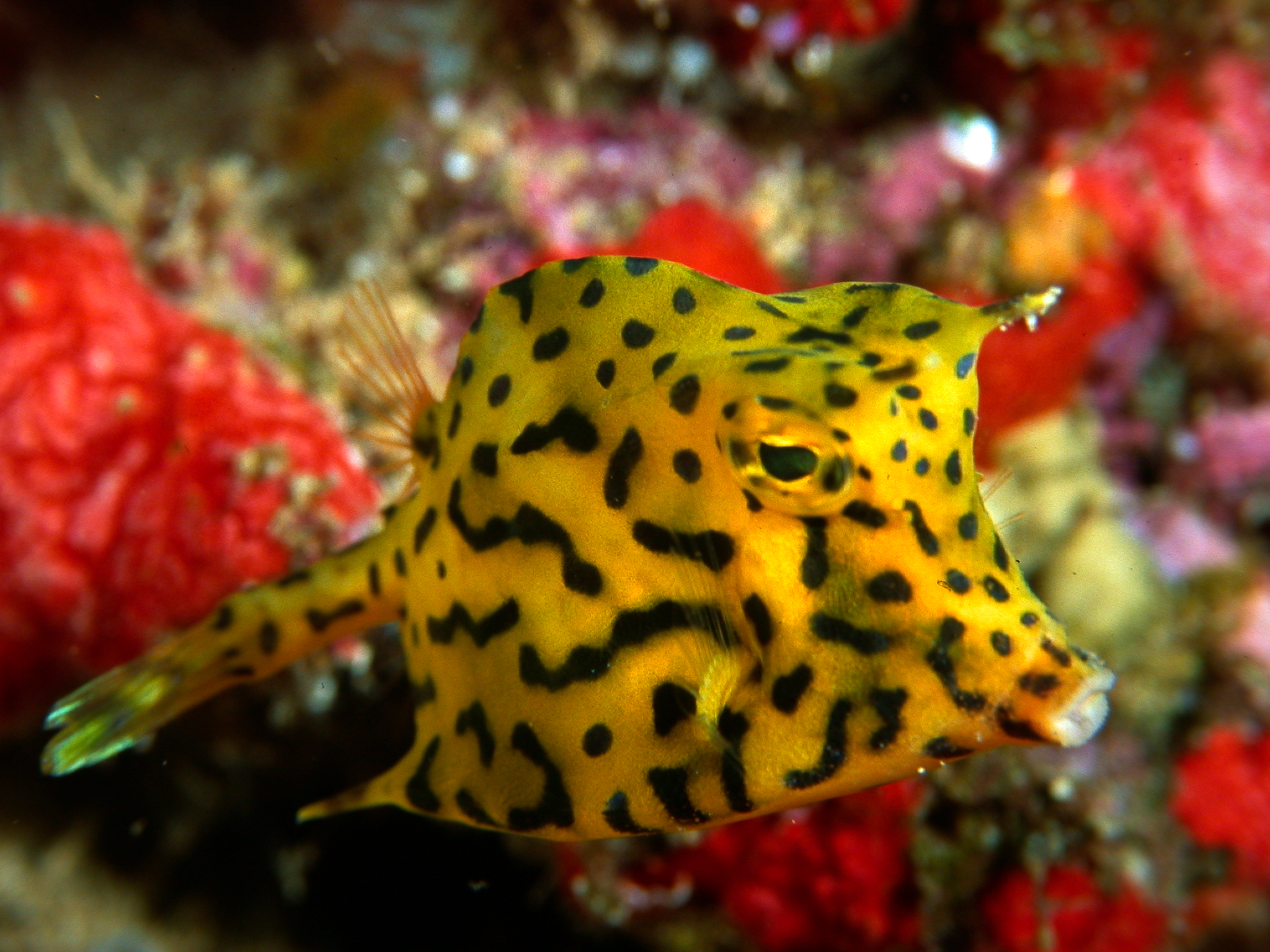 Juvie trunkfish (Acanthostracion quadricornis)